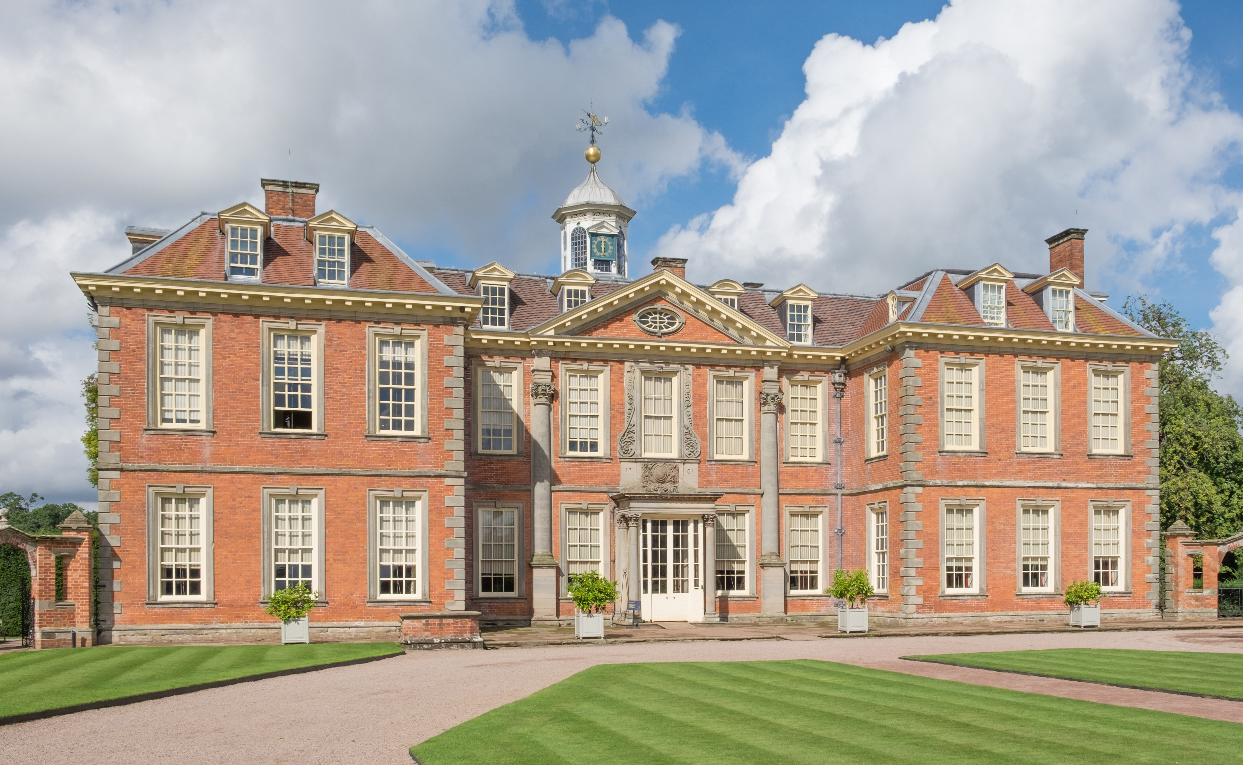 Hanbury Hall, Worcestershire, a Grade I Listed Building in England.